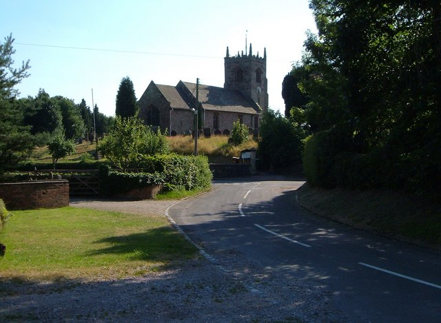 All Saints church, Chebsey. Seen from the east, with 205252 raised above the lanes at the southwest corner of the village.